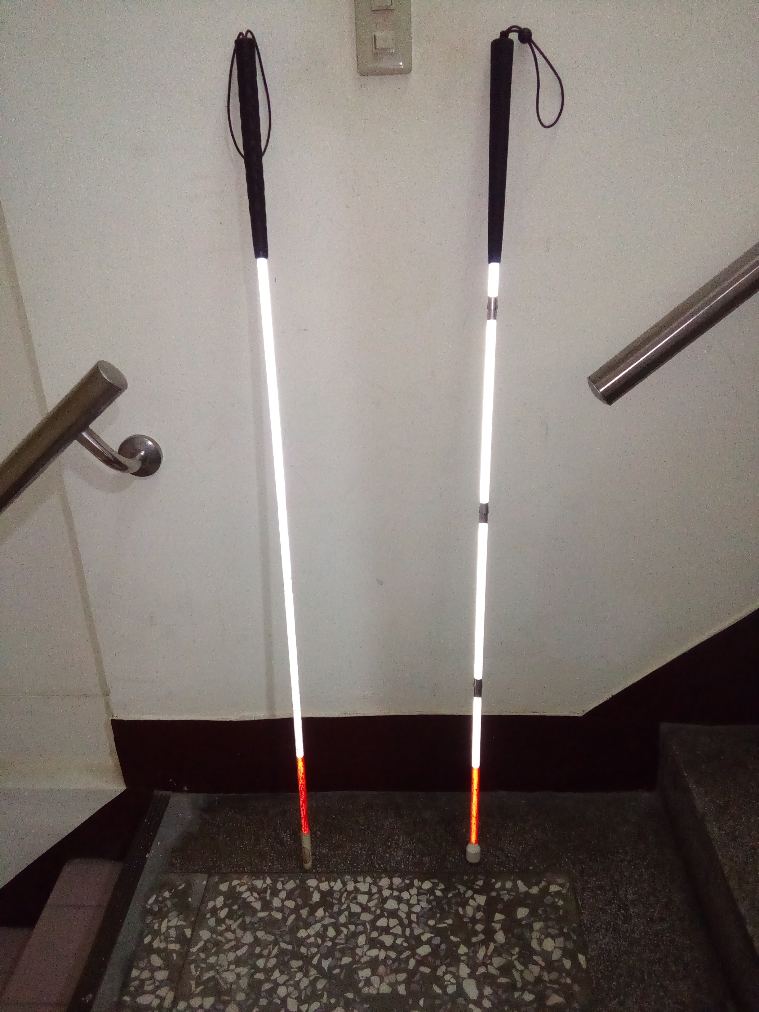 a long cane and a fold cane